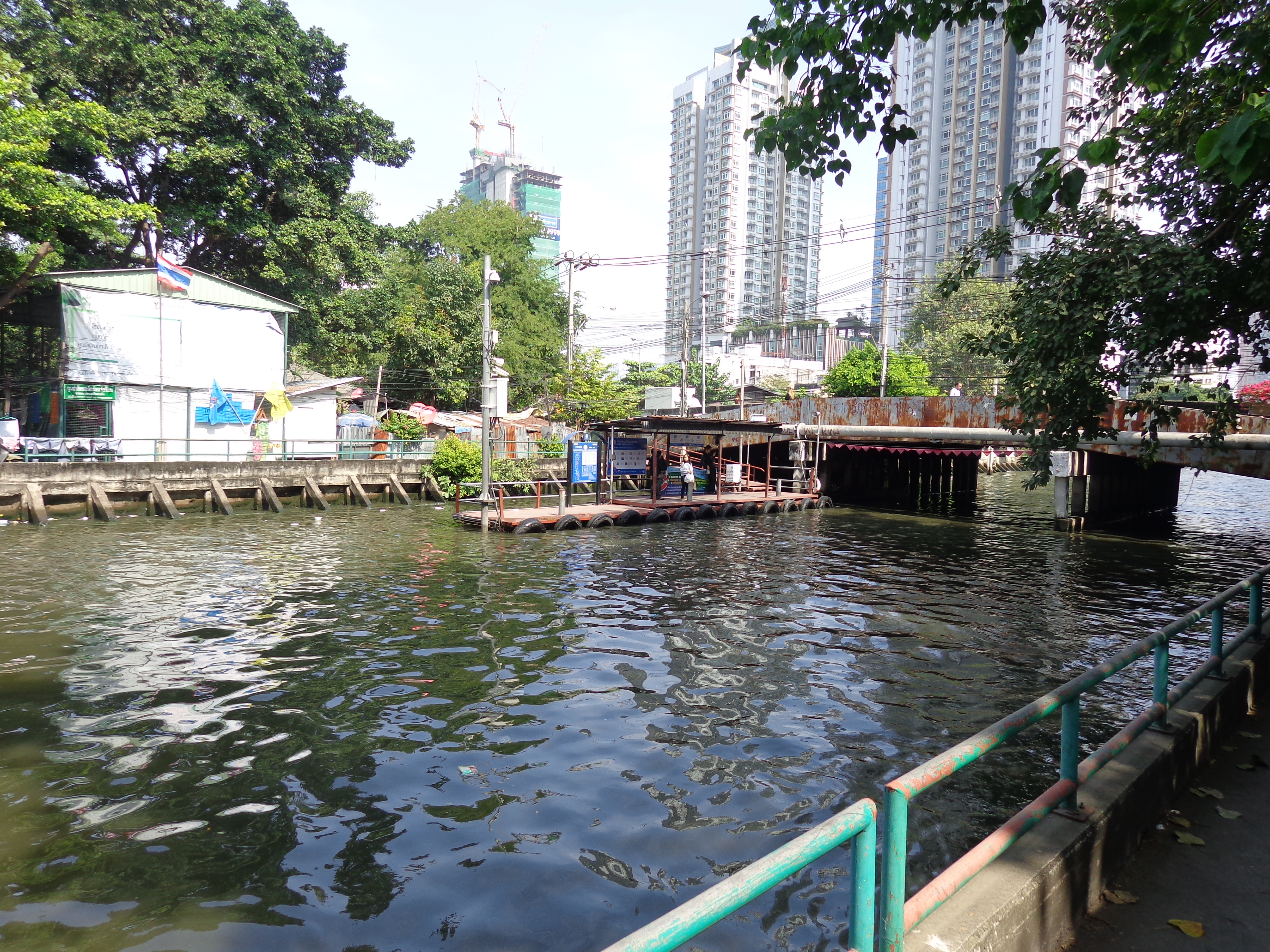 Ferry boat stop Khlong Saen Saep boat service Bangkok